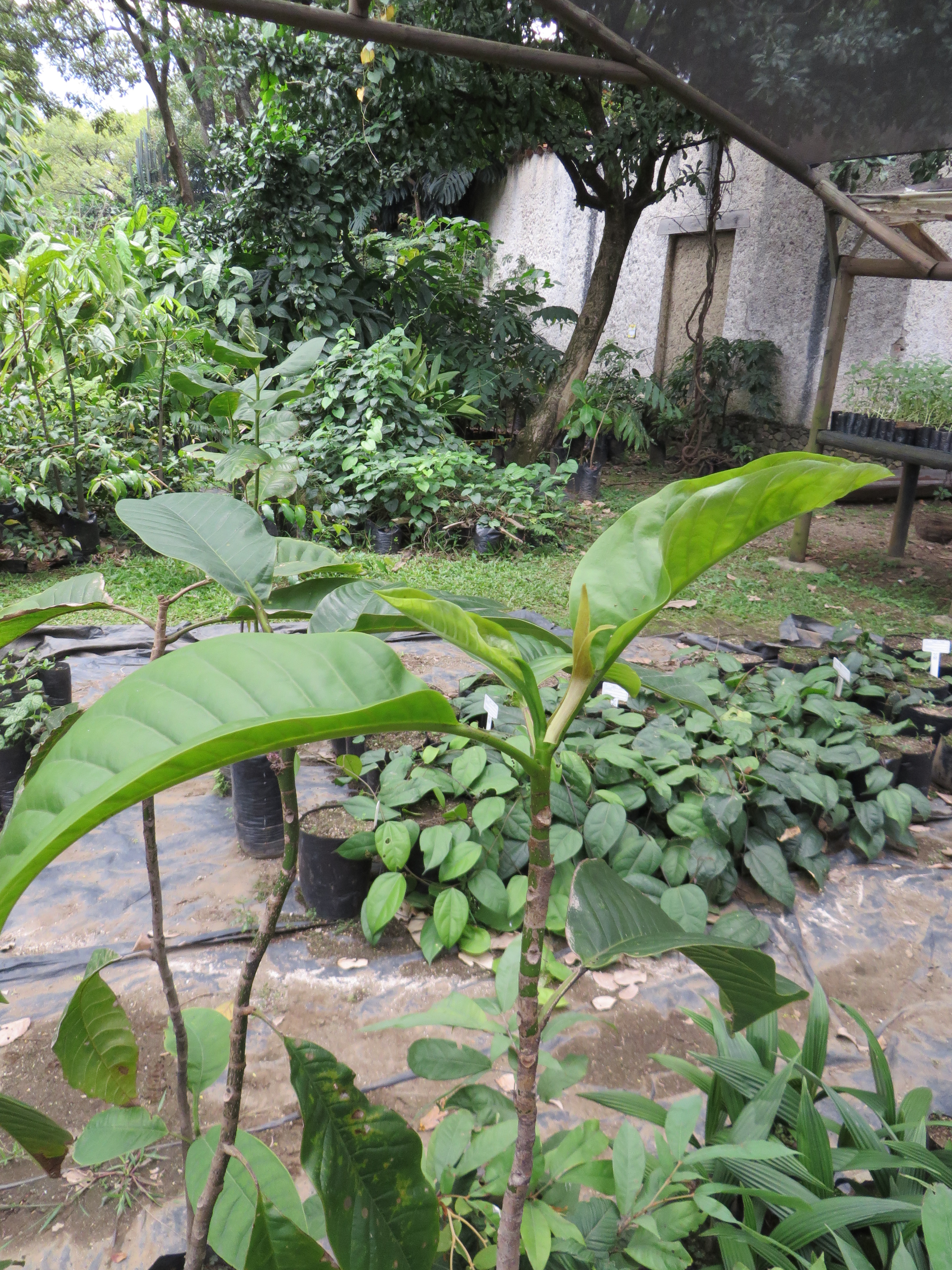 M. polyhypsophila